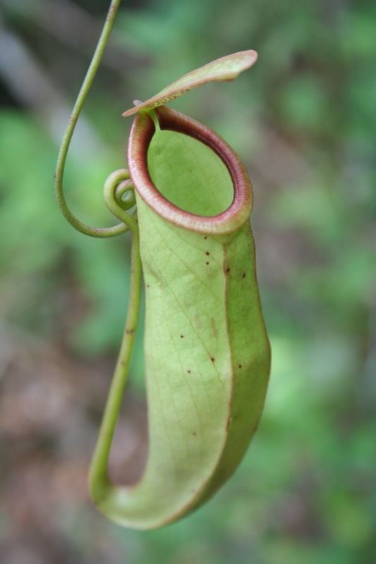 Nepenthes mirabilis upper pitcher. Image has been used on Micronesian postage stamp.